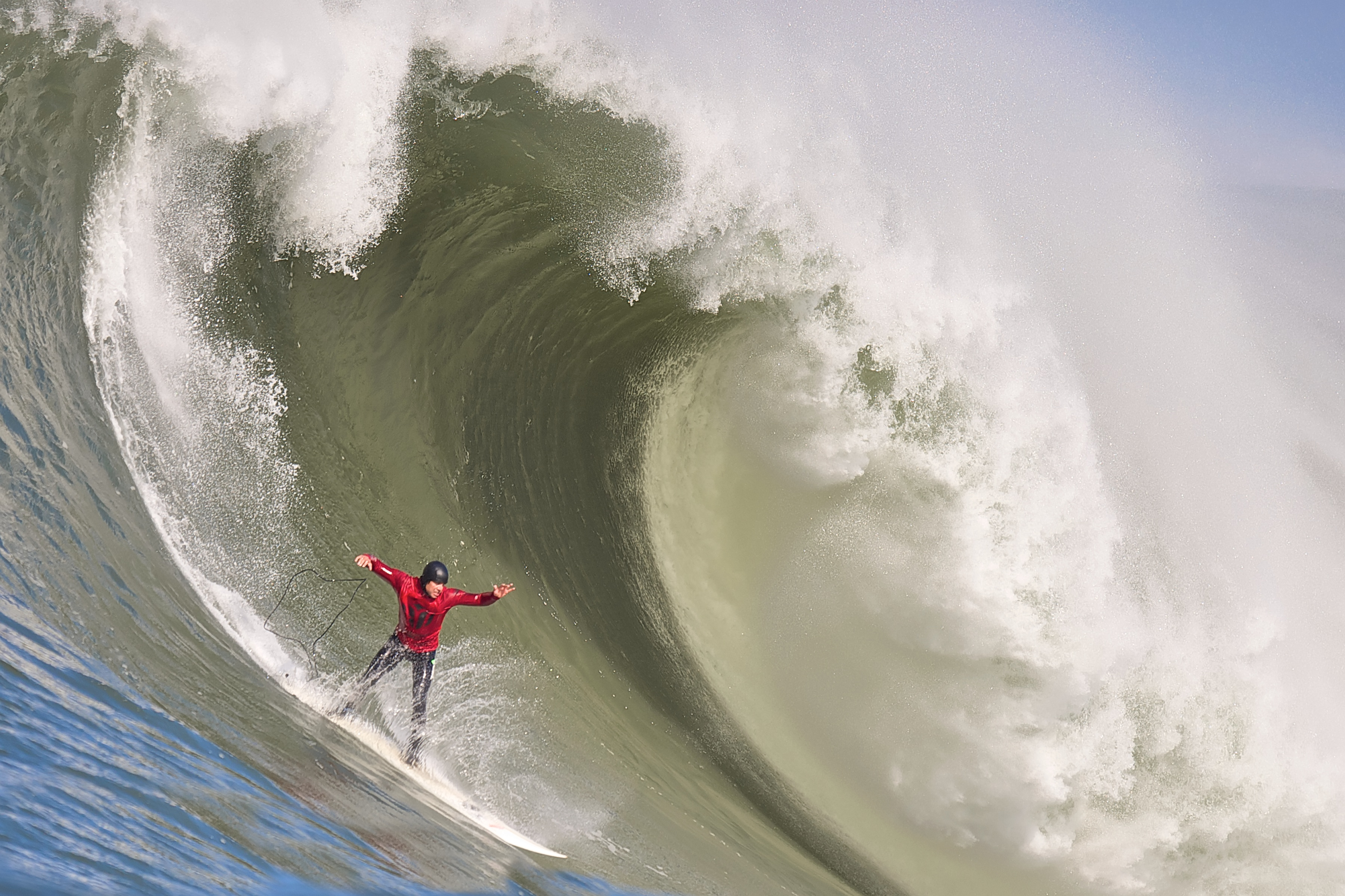 Surfer takes on a massive wave in Halfmoon Bay during the Mavericks Surf Contest